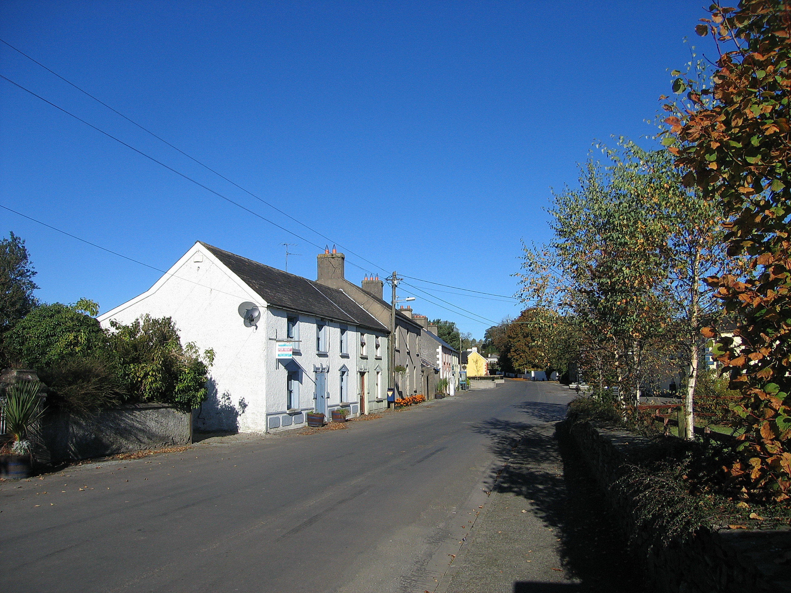 Grangecon, County Wicklow (Sarah777 02:54, 10 January 2007 (UTC))